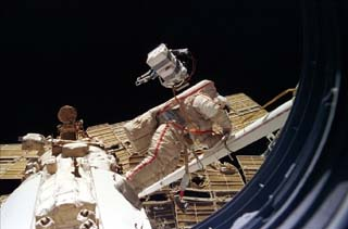 A view of Mir EO-24 commander Anatoly Solovyev performing an EVA outside Spektr to inspect the module for damage following the collision between the station and Progress M-34 in 1997.